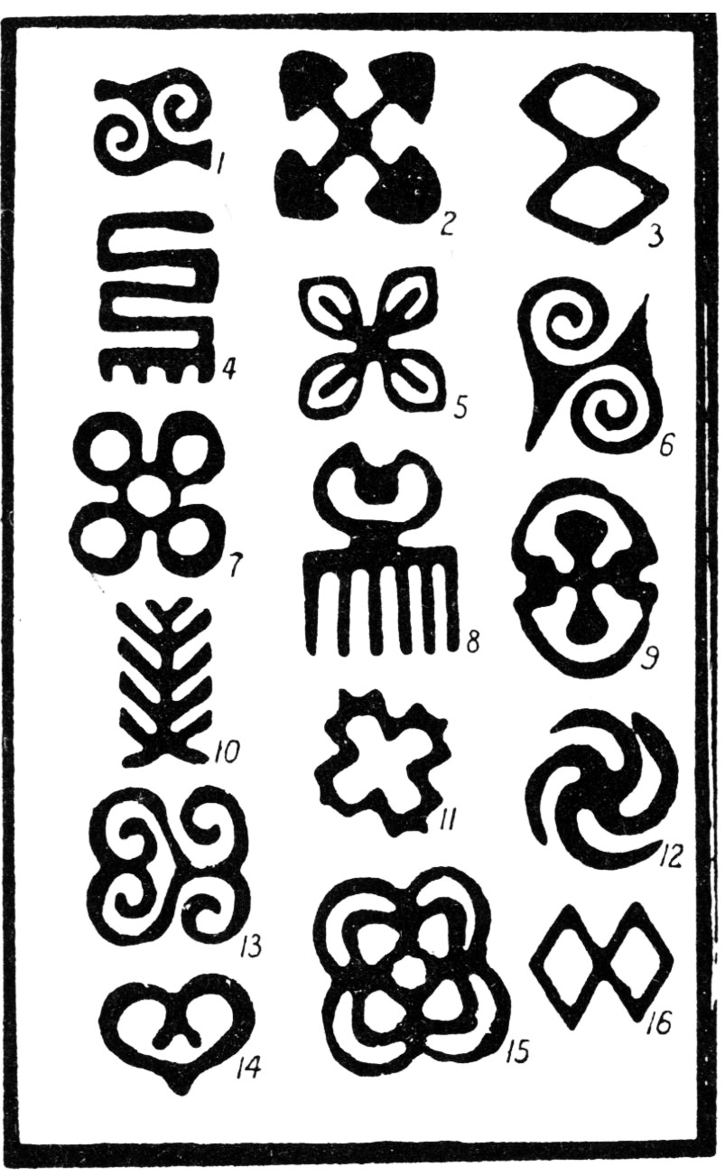 Adinkra symbols, including first documented occurence of sankofa symbol Rattray gives the names of the symbols as follows: 1. Gyawu Atiko, lit. the back of Gyawu's head. Gyawu was a sub-chief of Bantama who at the annual Odwira ceremony is said to have had his hair shaved in this fashion. 2. Akoma ntoaso, lit. the joined hearts. 3. Epa, handcuffs. See also No. 16. 4. Nkyimkyim, the twisted pattern. 5. Nsirewa, cowries. 6. Nsa, from a design of this name found on nsa cloths. 7. Mpuannum, lit. five tufts (of hair). 8. Duafe. the wooden comb. 9. Nkuruma kese, lit. dried okros. 10. Aya, the fern; the word also means ' I am not afraid of you ', ' I am independent of you' and the wearer may imply this by wearing it. 11. Aban, a two-storied house, a castle; this design was formerly worn by the King of Ashanti alone. 12. Nkotimsefuopua, certain attendants on the Queen Mother who dressed their hair in this fashion. It is really a variation of the swastika. 13 and 14 Both called Sankofa, lit. turn back and fetch it. See also Fig. 149 , No. 27. 15. Kuntinkantan, lit. bent and spread out ; nkuntinkantan is used in the sense of ' do not boast, do not be arrogant '. 16. Epa, handcuffs, same as No. 3.